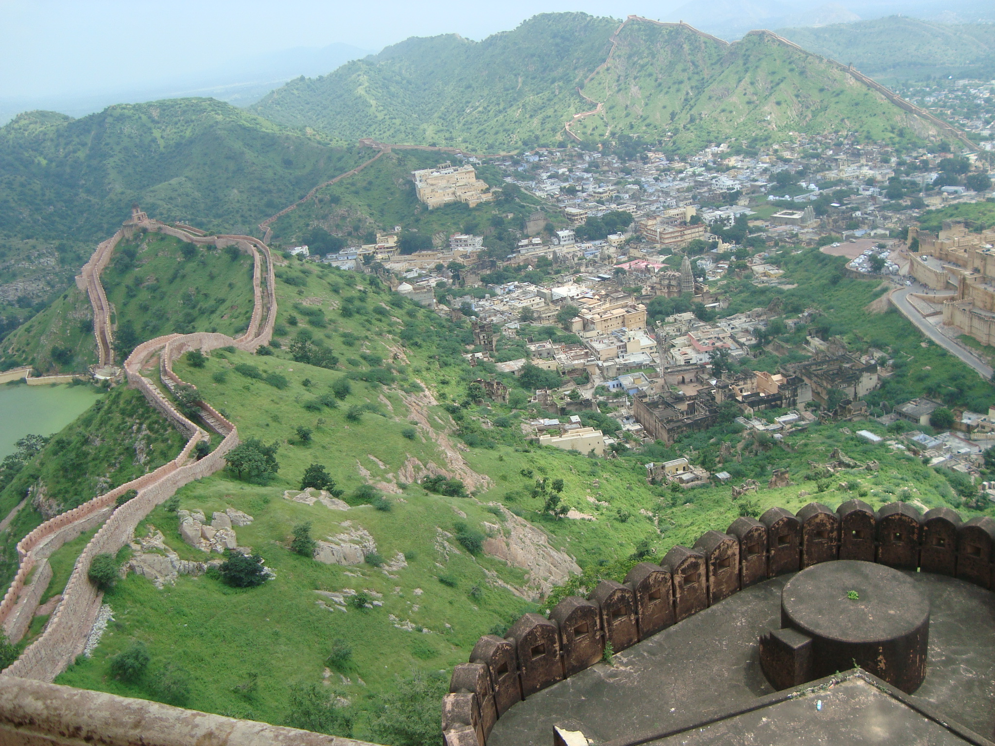 Compound wall of Amber and Jaigarh forts running through the top of hills and surrounding the entire Amber town. View from Jaigarh Fort.